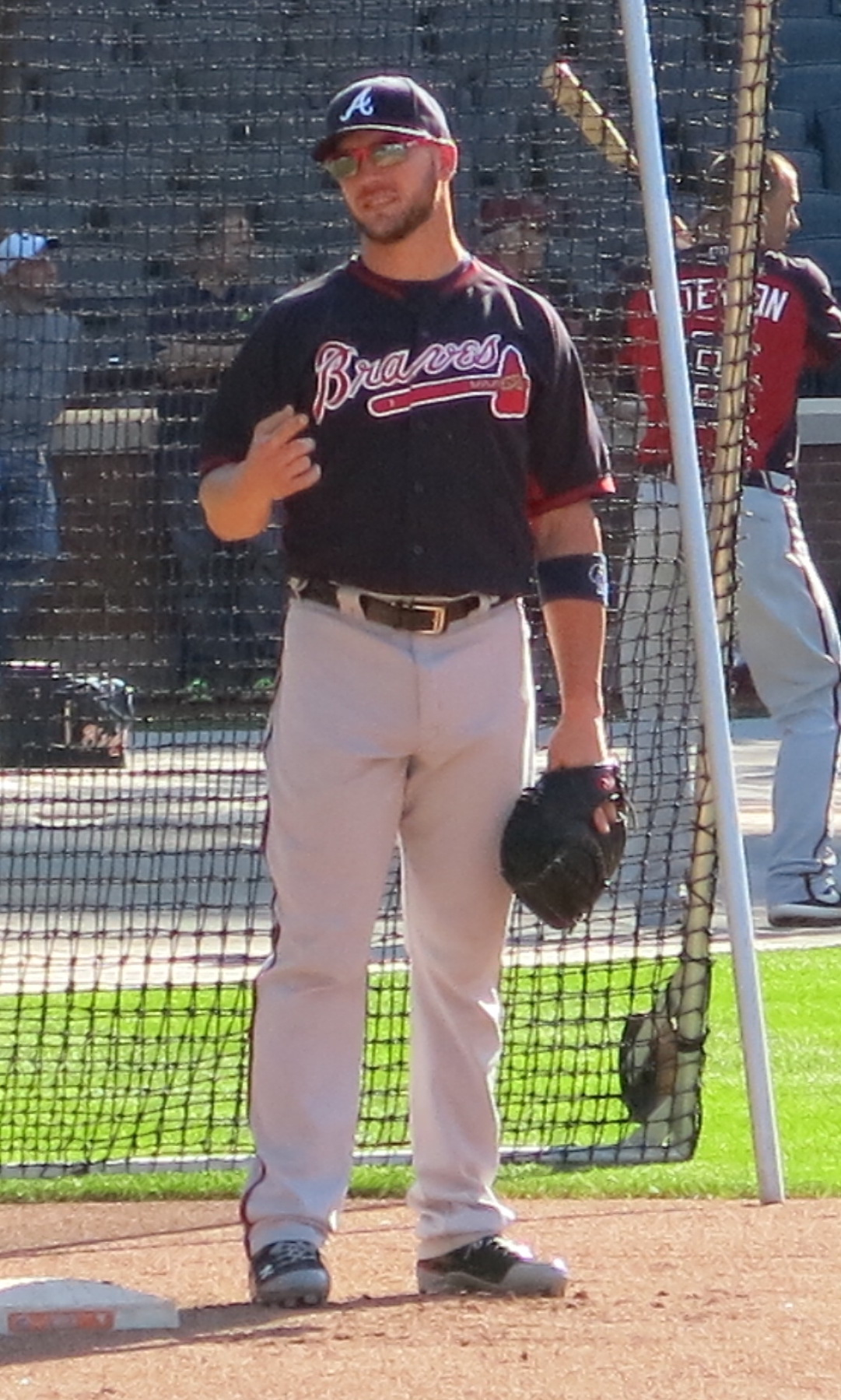 Tyler Flowers of the Atlanta Braves, June 17, 2016.